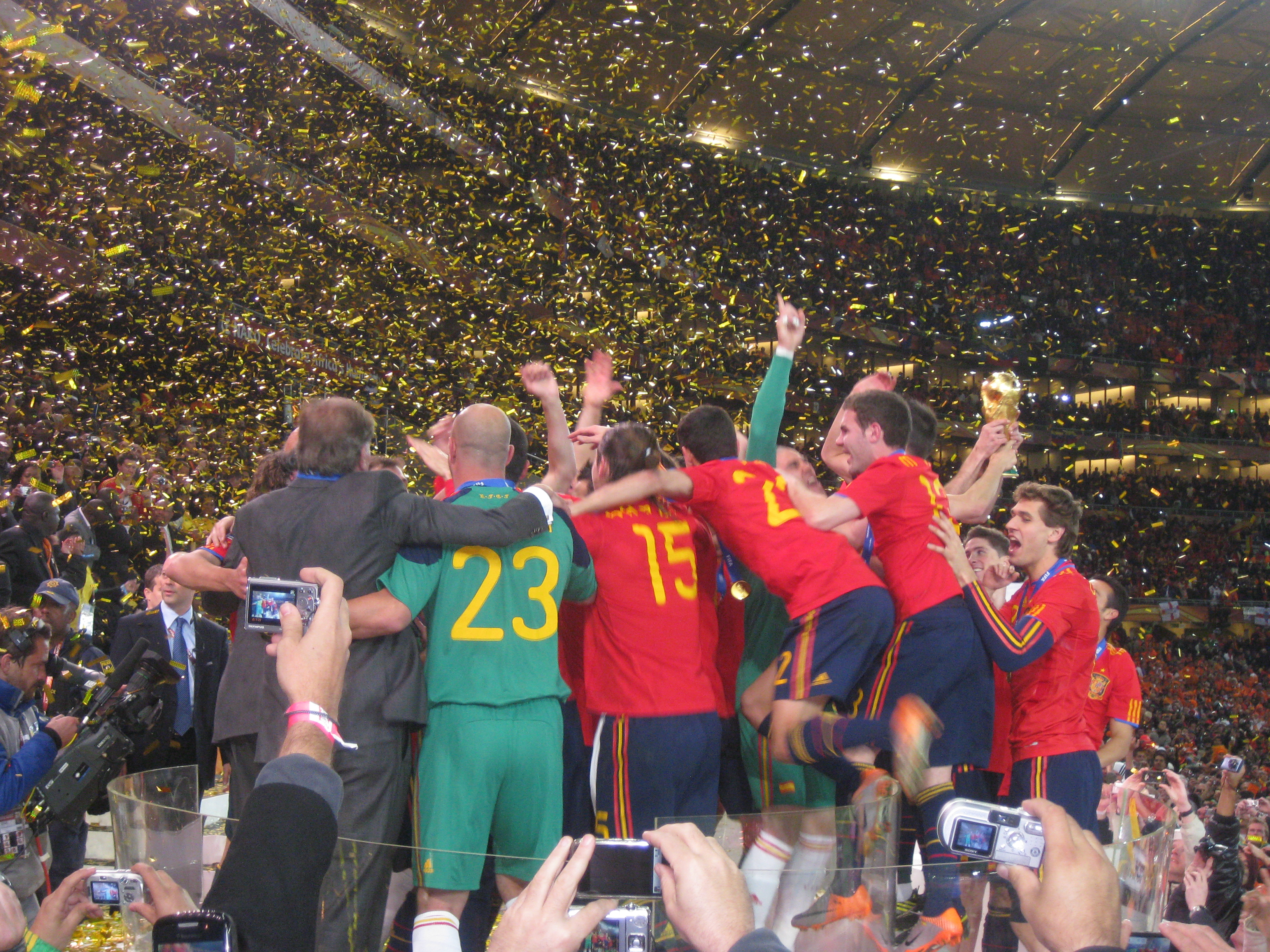 Spain with the cup after FIFA World Cup 2010 Final against Netherlands, 11 July 2010, Soccer City, Johannesburg